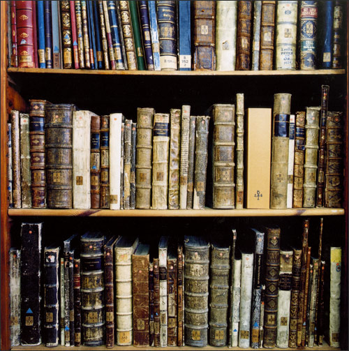 Photo of books with library number tags on their spines on bookshelf.